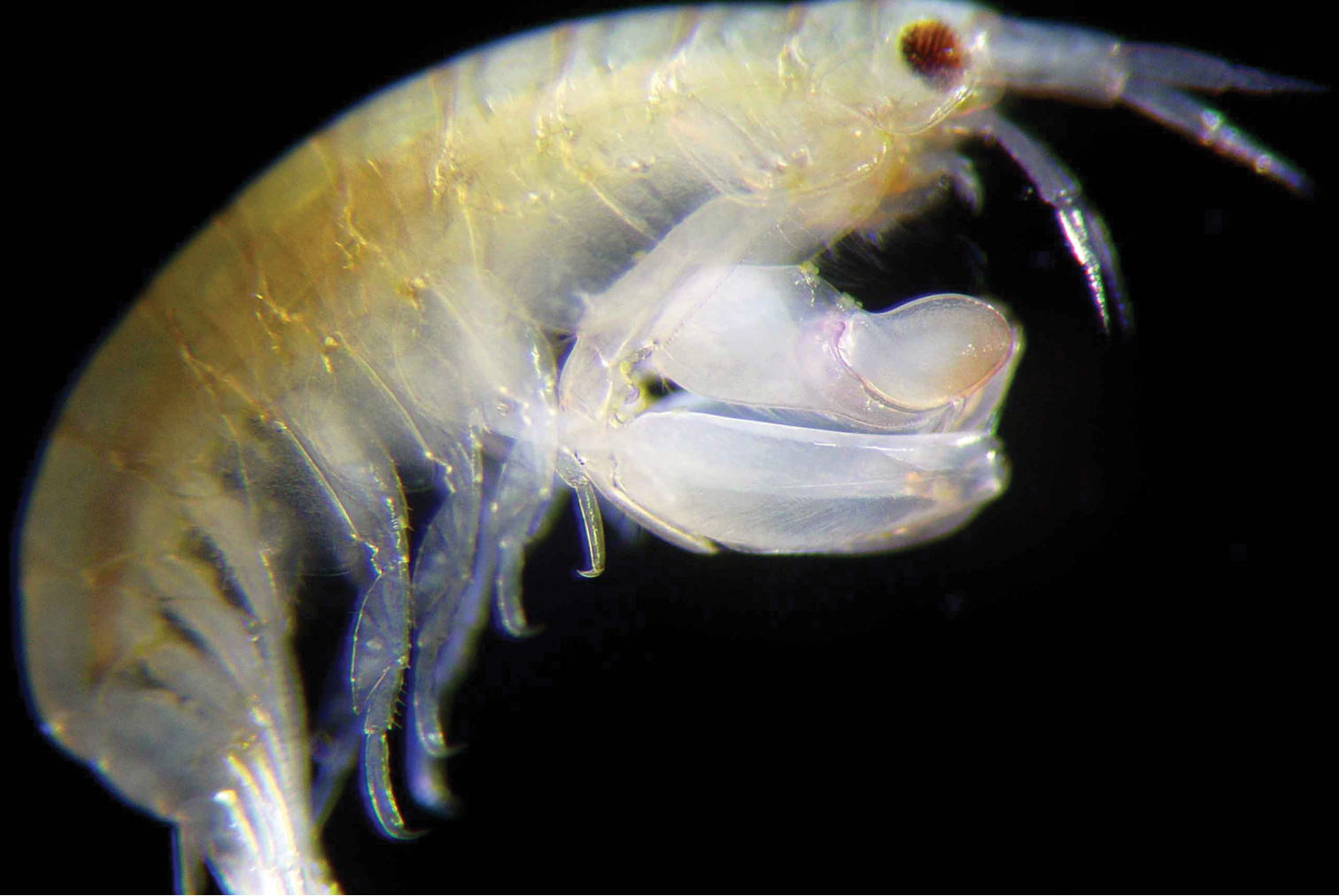 Leucothoe eltoni male, whole body showing inflated gnathopod 1.